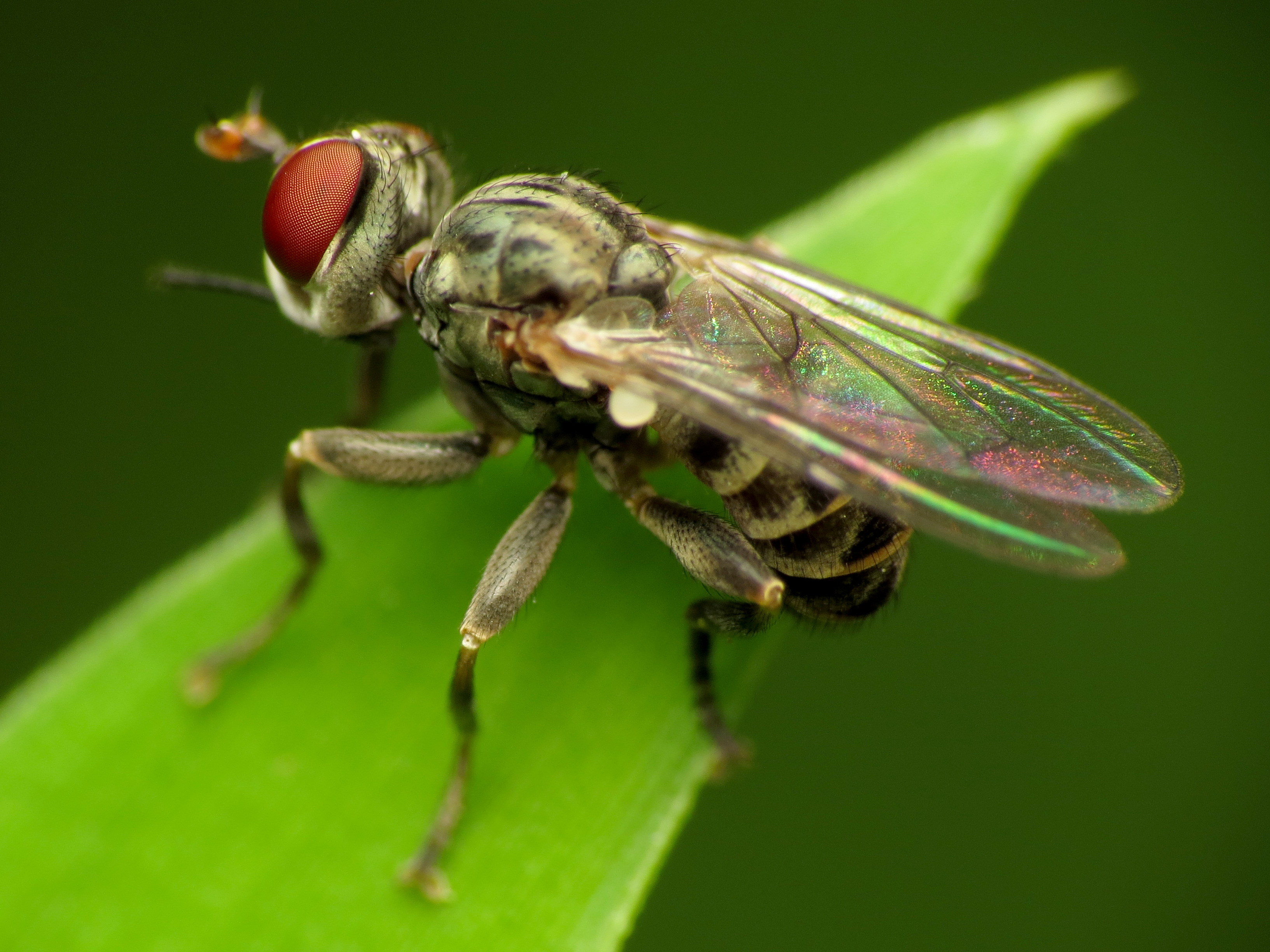 Little Conopid Fly, Zodion sp. , left side view, Rock Creek Park, Washington, DC, USA.